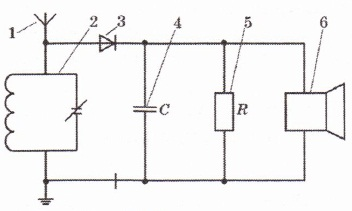 Fizika 3.23